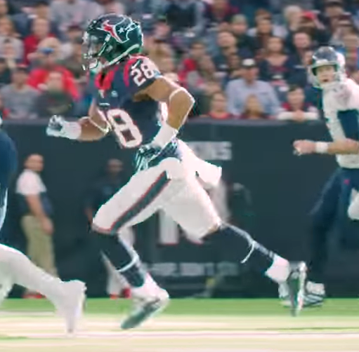 Vernon Hargreaves in 2019. Image from video Titans Mic'd Up vs. Texans (Week 17) | Sounds of the Game, ~ 00:36.